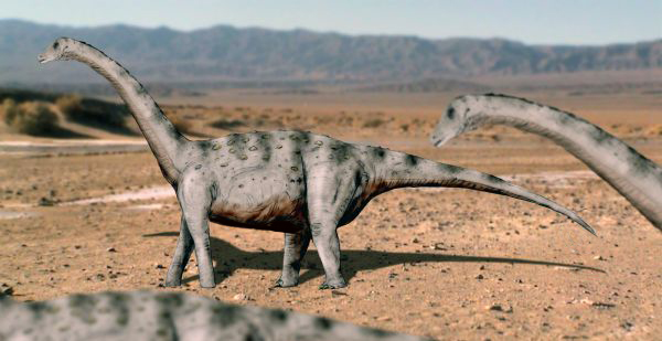 Tapuiasaurus